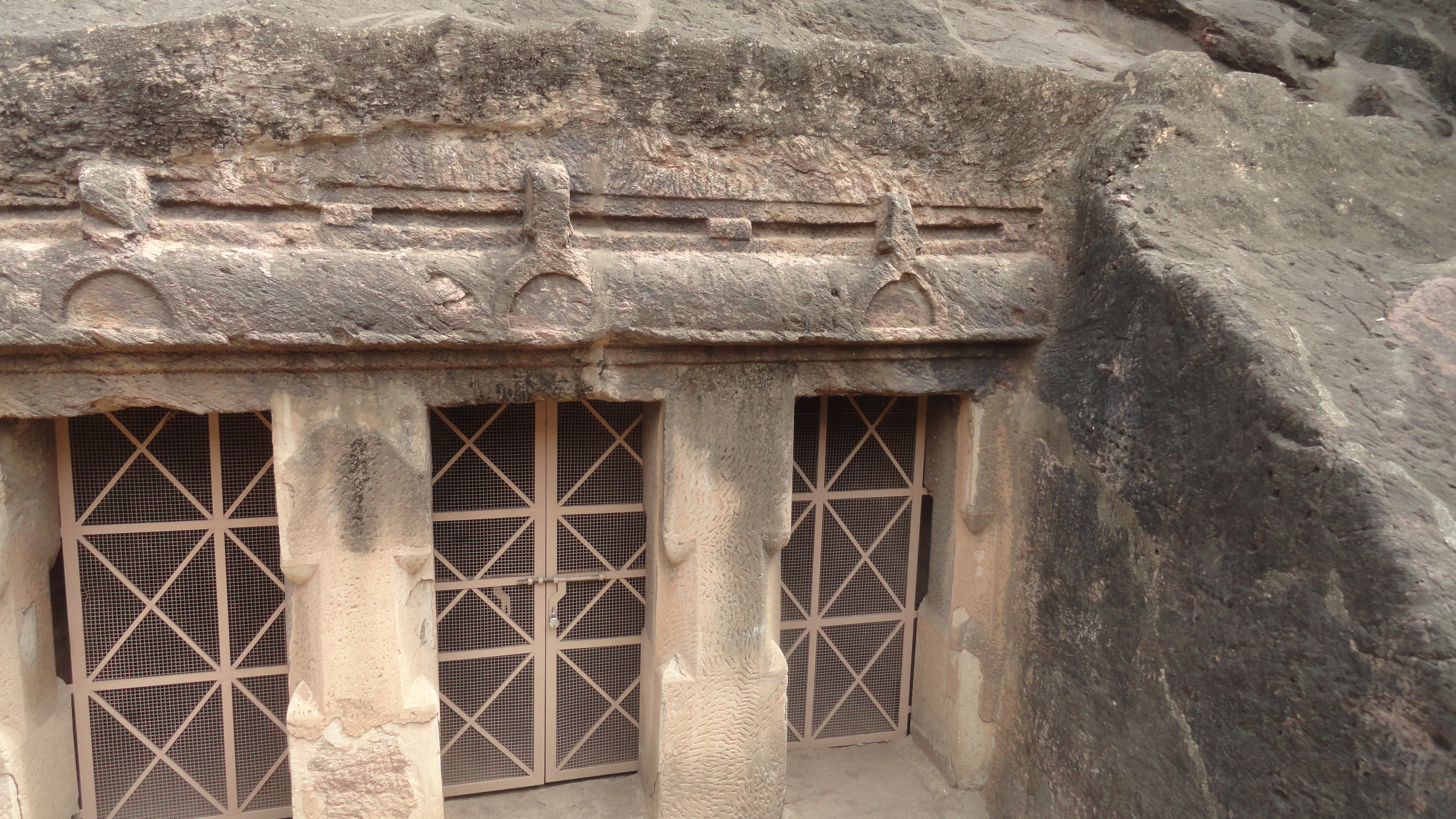 Mogalraja puram caves. vijayawada